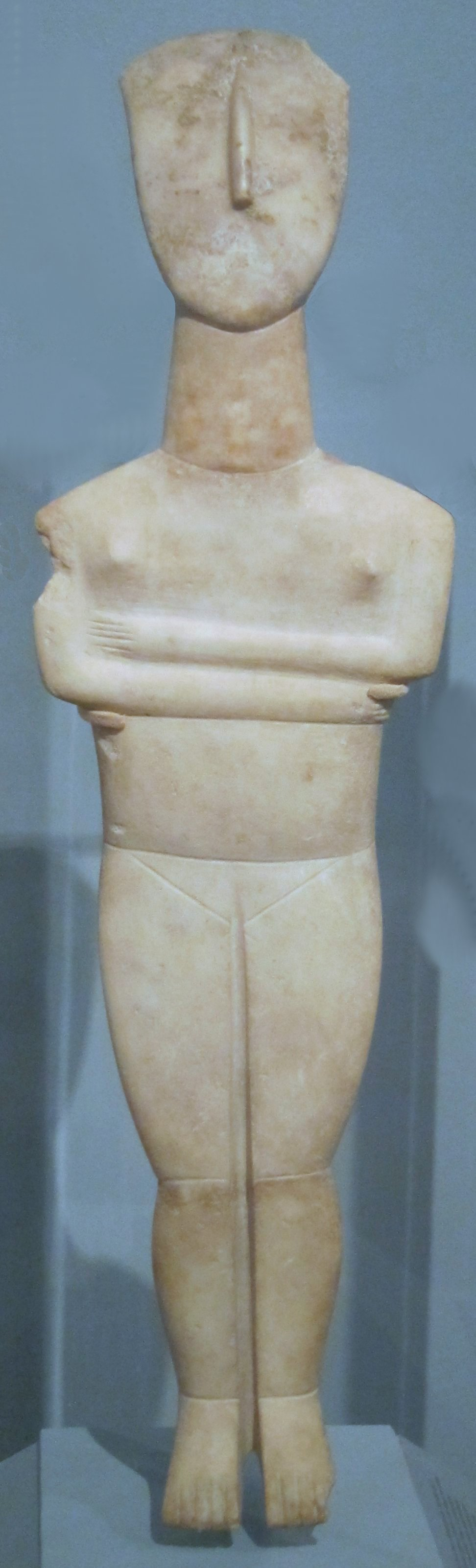 Female Cycladic figure, c. 2500-2400 B.C.E., marble with traces of polychrome, 25 1/2 in. (64.8 cm), Honolulu Museum of Art, accession 4386.1